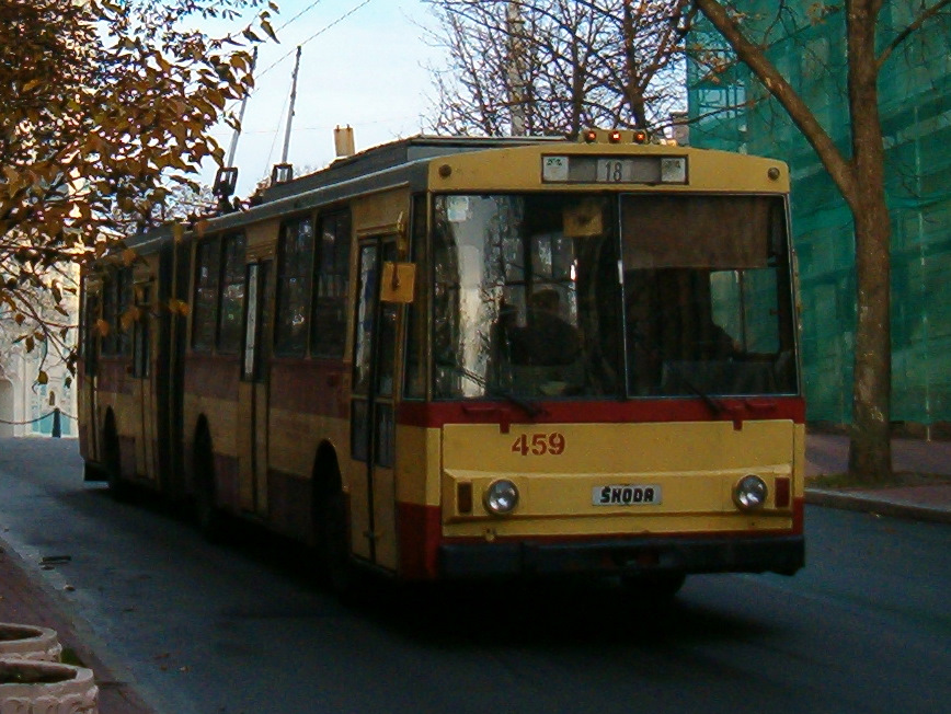 Trolleybus Škoda 15Tr in Kiev